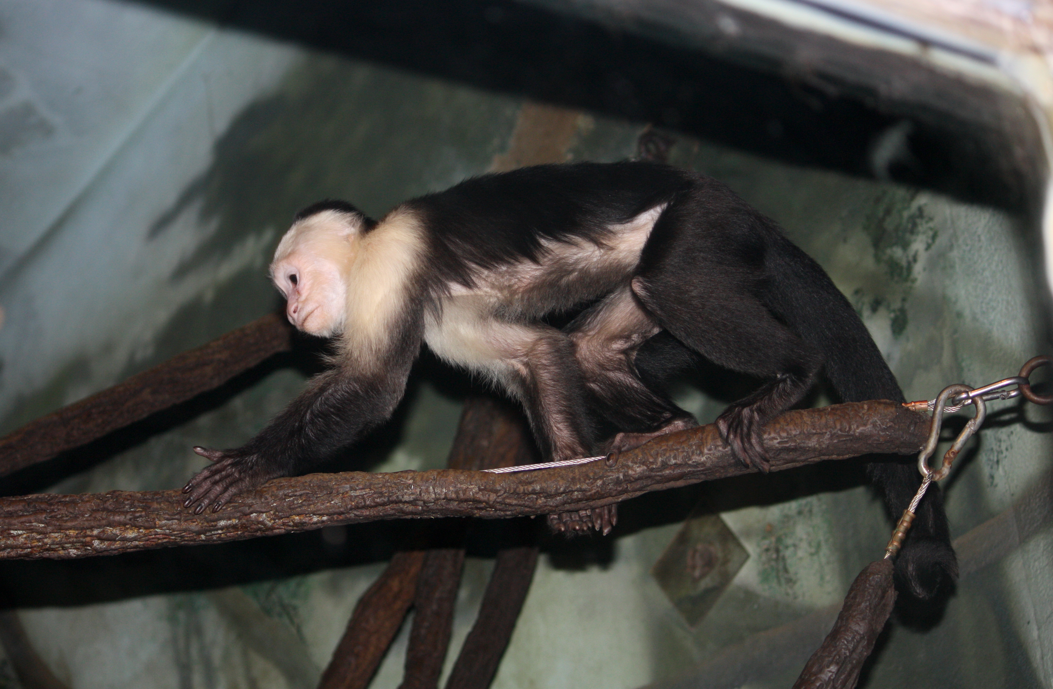 White-throated Capuchin (Cebus capucinus) perched on a branch. Bronx Zoo, New York City.